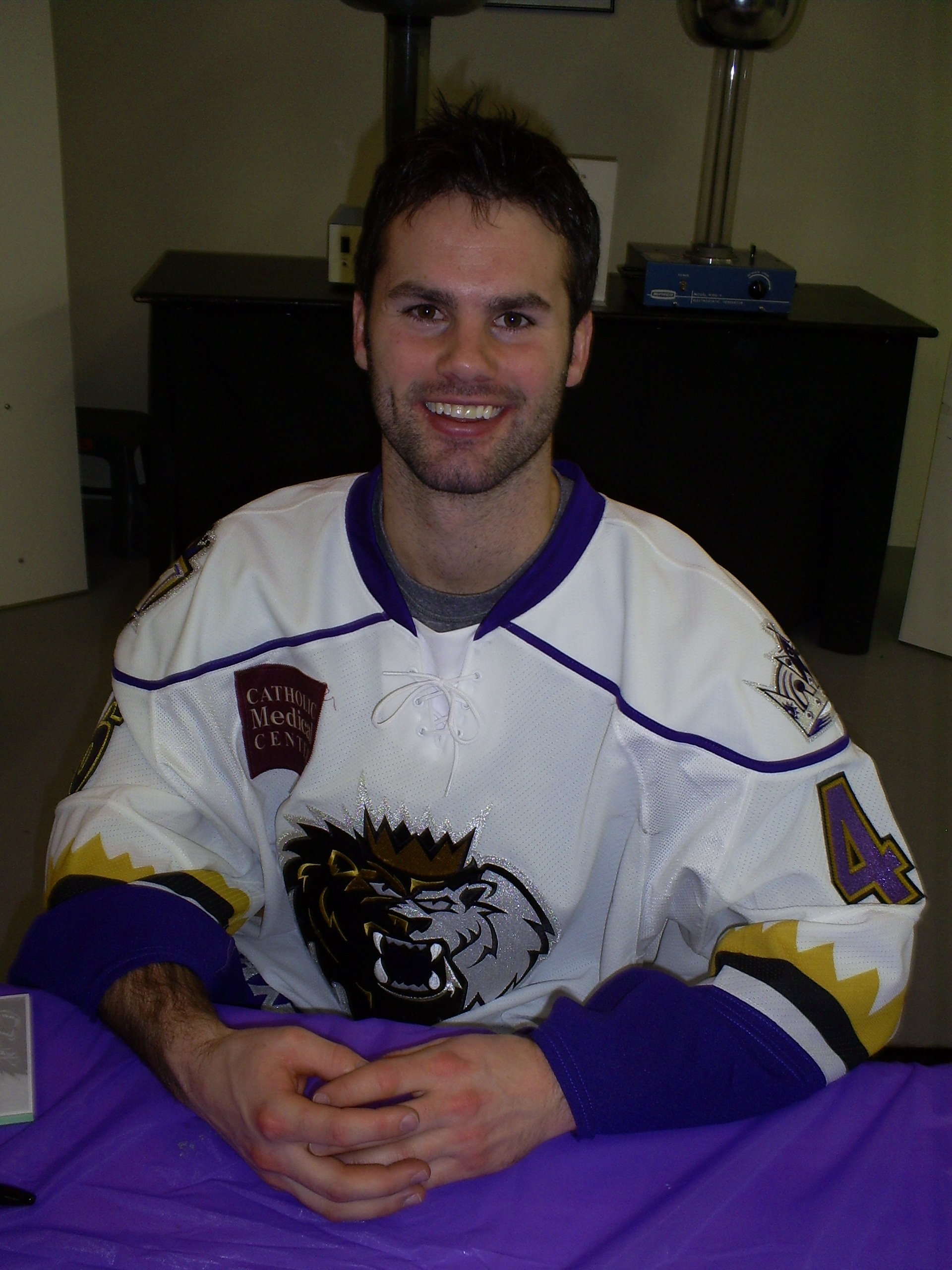 Photo by Craig Michaud.This is Daniel Taylor in 2009 while playing for the Manchester Monarchs